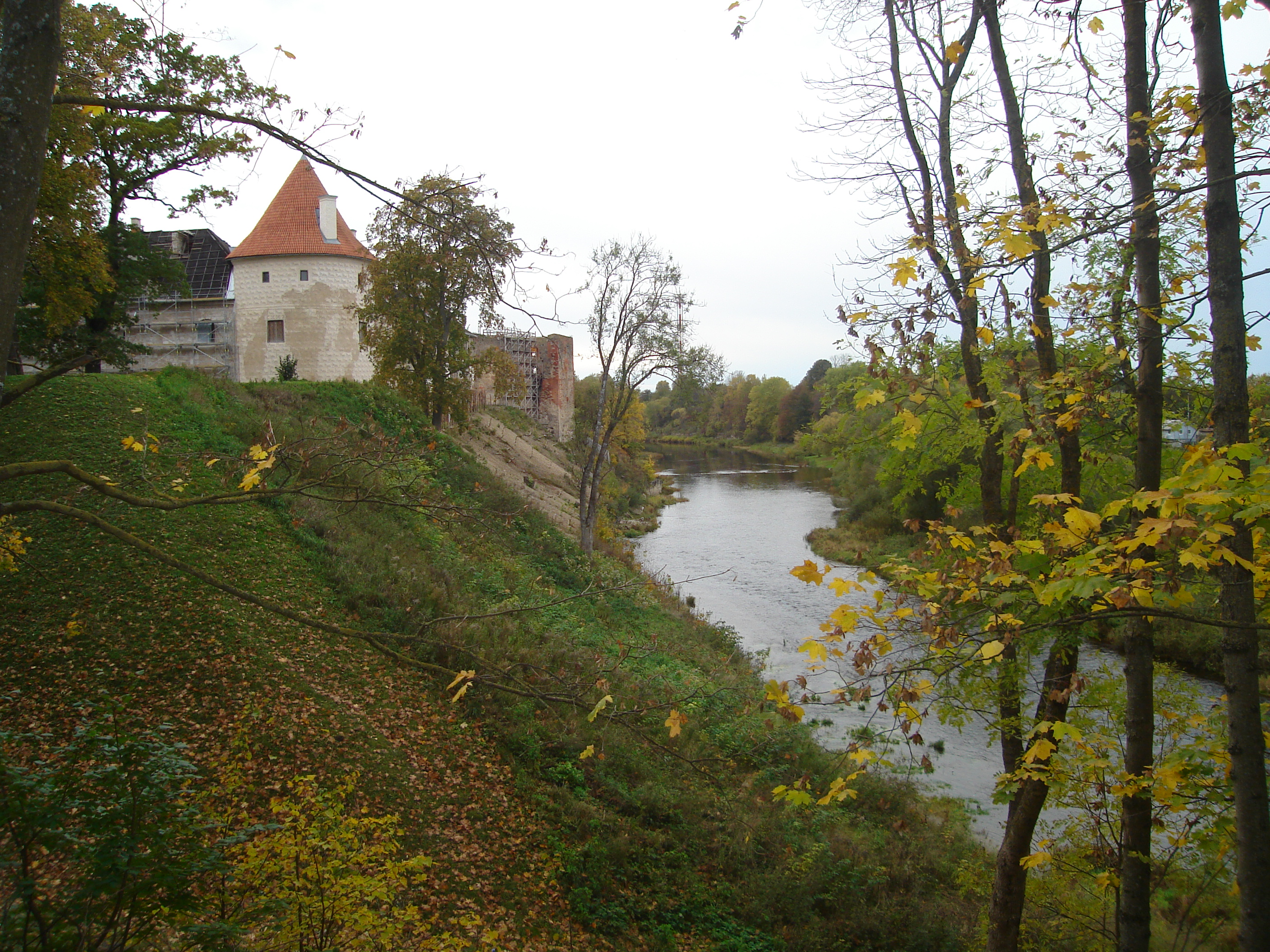 Picture of Mēmele (Nemunėlis) river in Bauska